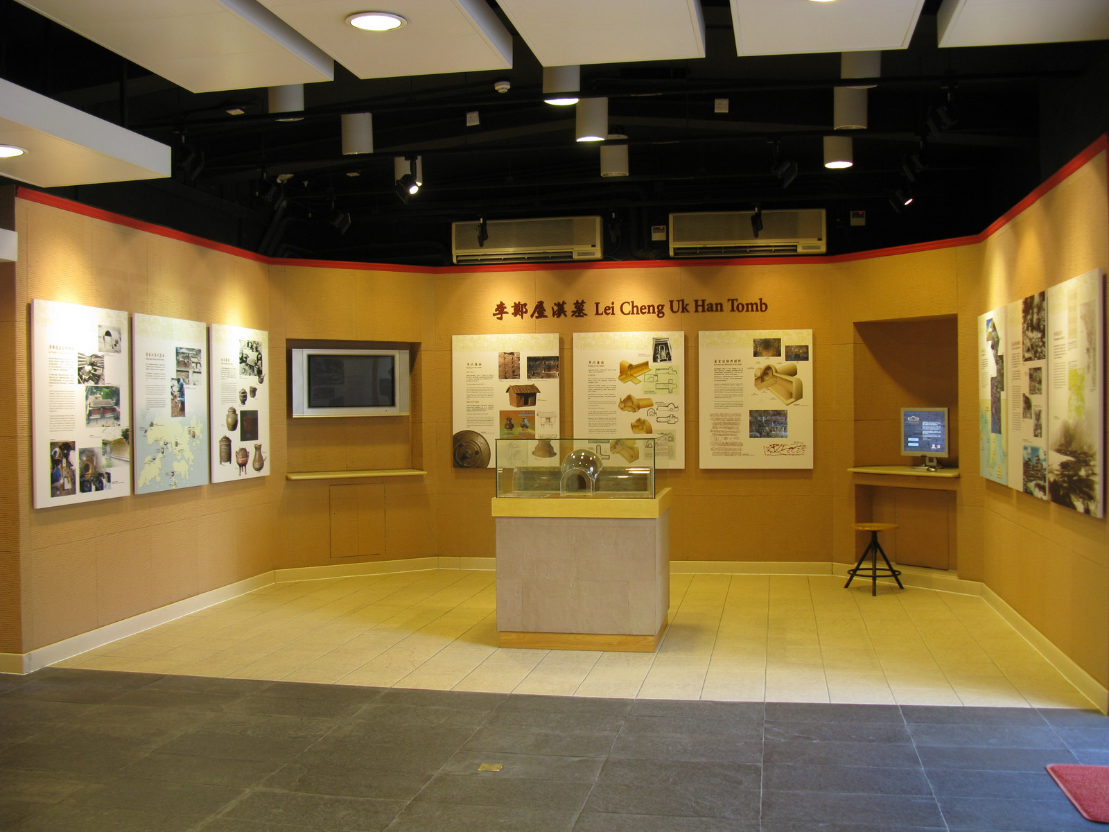 Exhibition hall of Lei Cheng Uk Han Tomb Museum. Phototaking was allowed while video recording was disallowed.